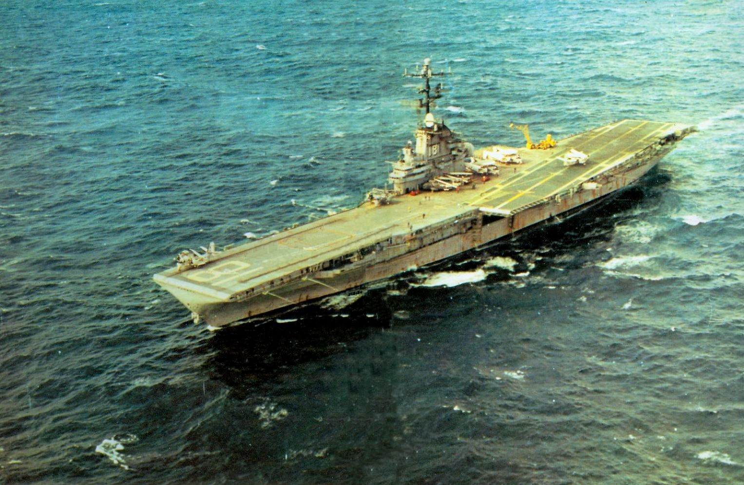 The U.S. Navy aircraft carrier USS Wasp (CVS-18) underway in the Atlantic Ocean, in 1970.